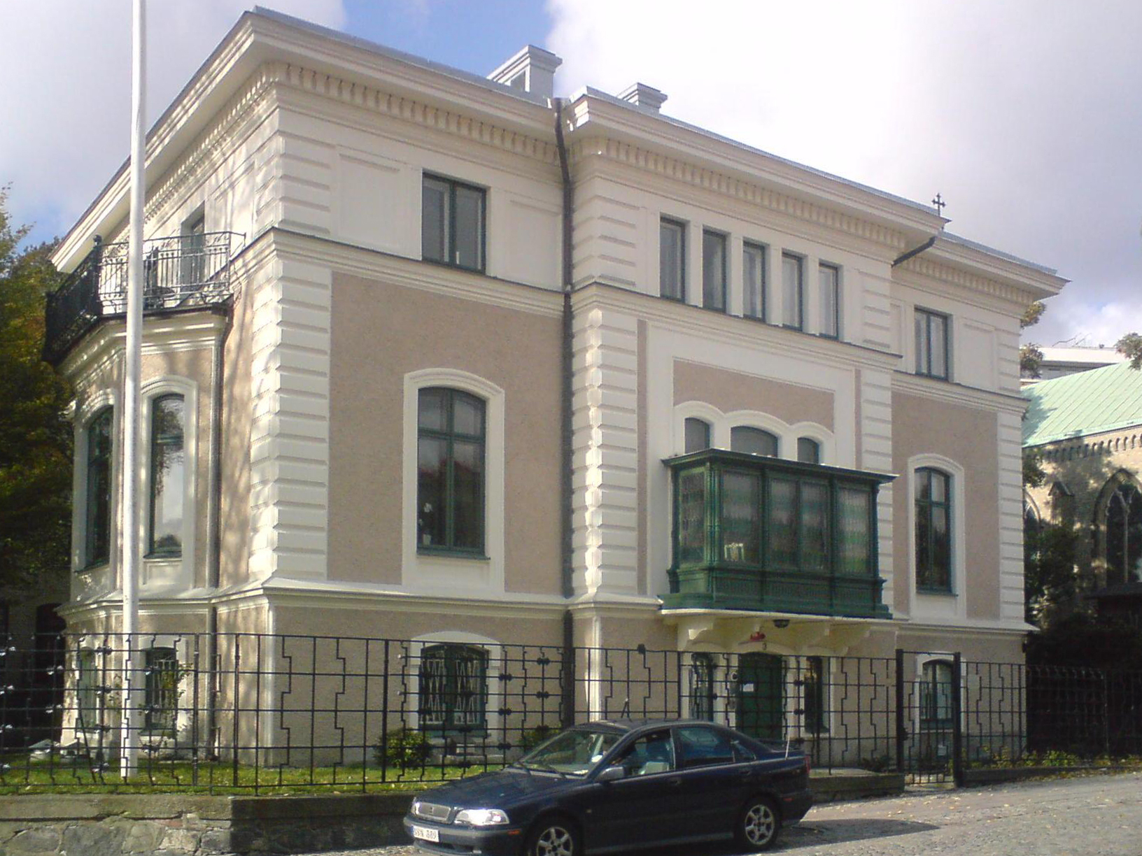 The Gegerfelt house in Göteborg, built 1875. Designed by architect Victor von Gegerfelt for himself and his family to live in.